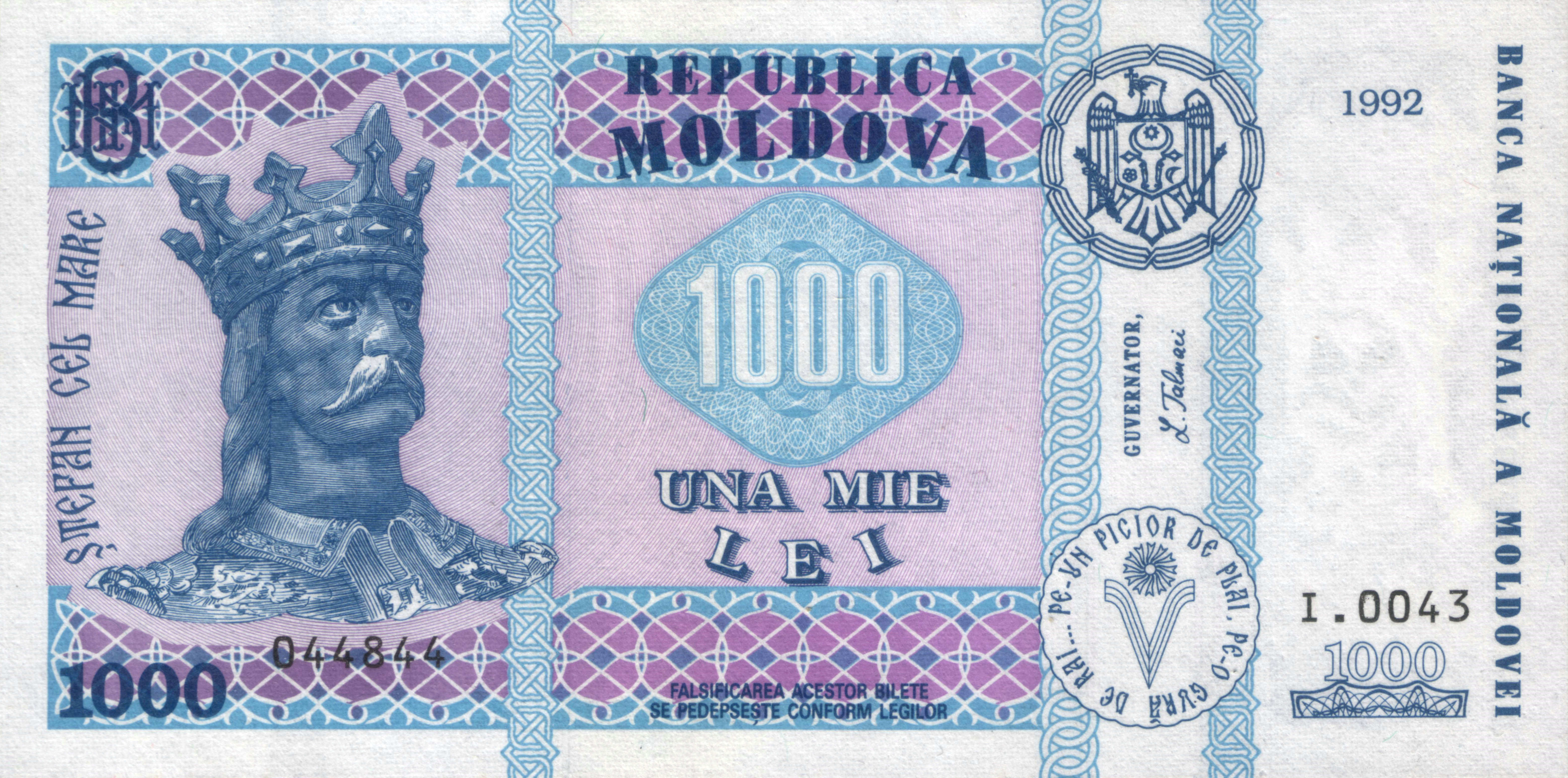 1000 lei (1992)